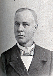 George Calhoun Crowther, US Representative from Missouri